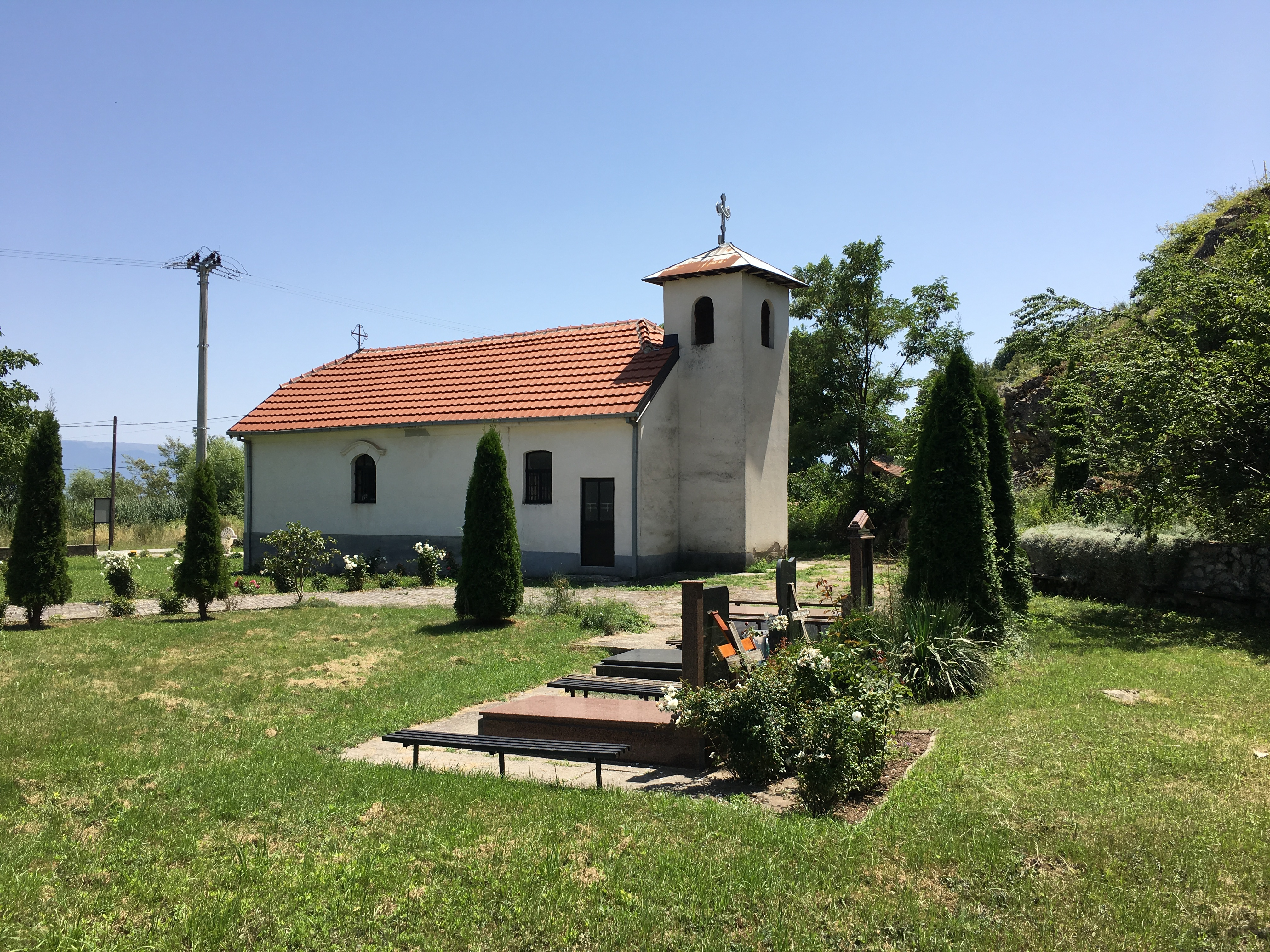 St. Nicholas Church in the village of Kališta